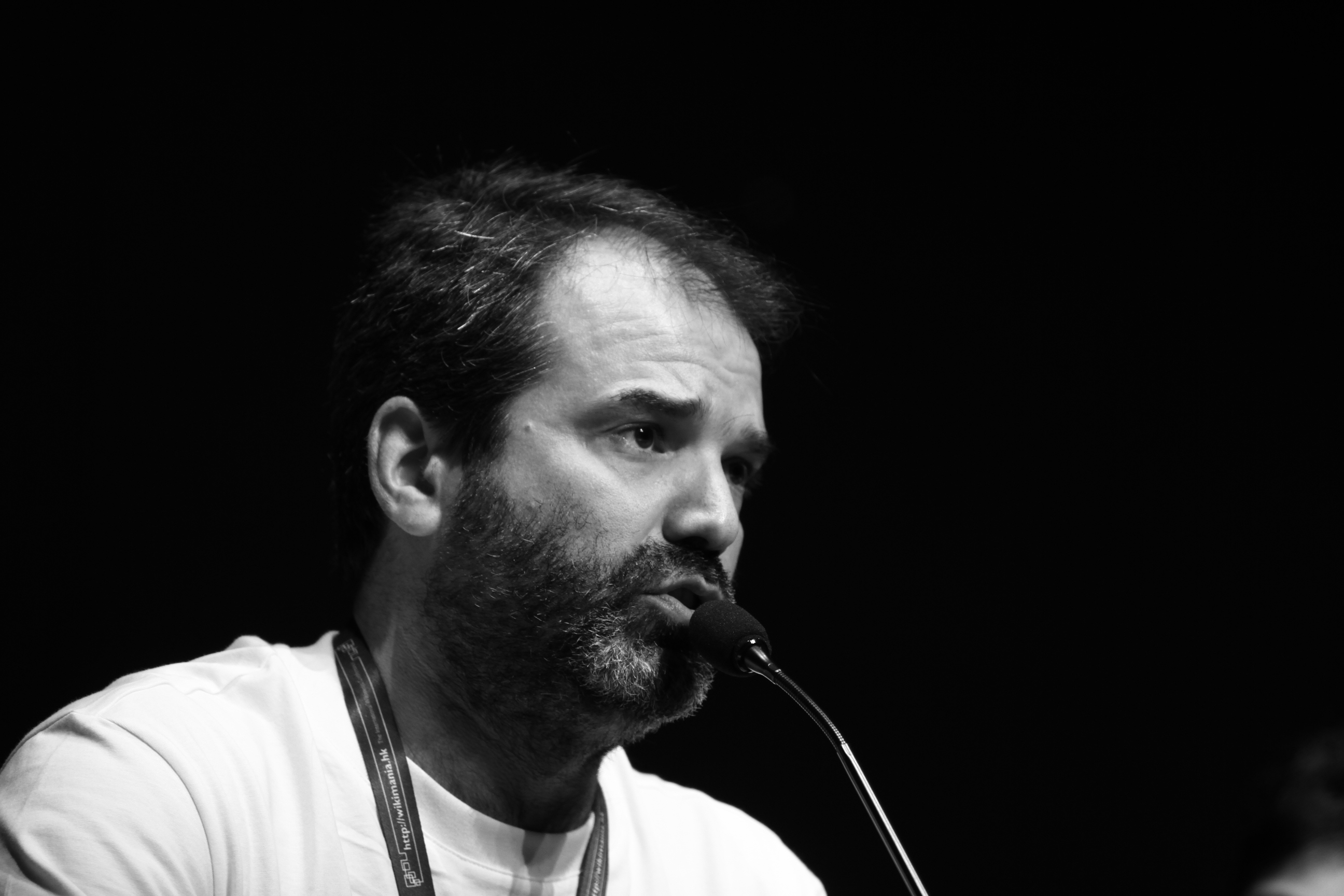 Wikimania 2013: Patricio Lorente during the Board QnA session.